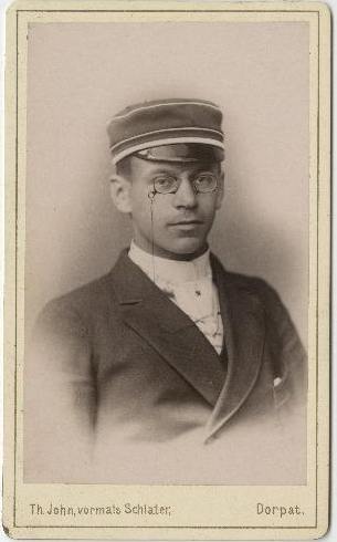 Arnold Moltrecht (1873—1952) — known entomologist of the Russian Far East, the ophthalmologist.